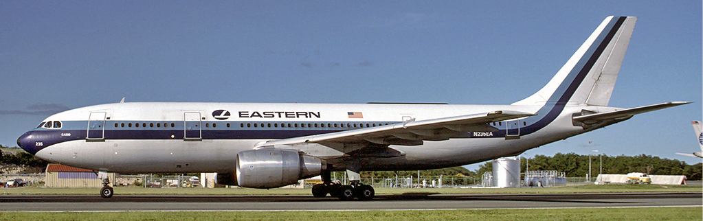 Eastern Airbus A300 at St Maarten Airport